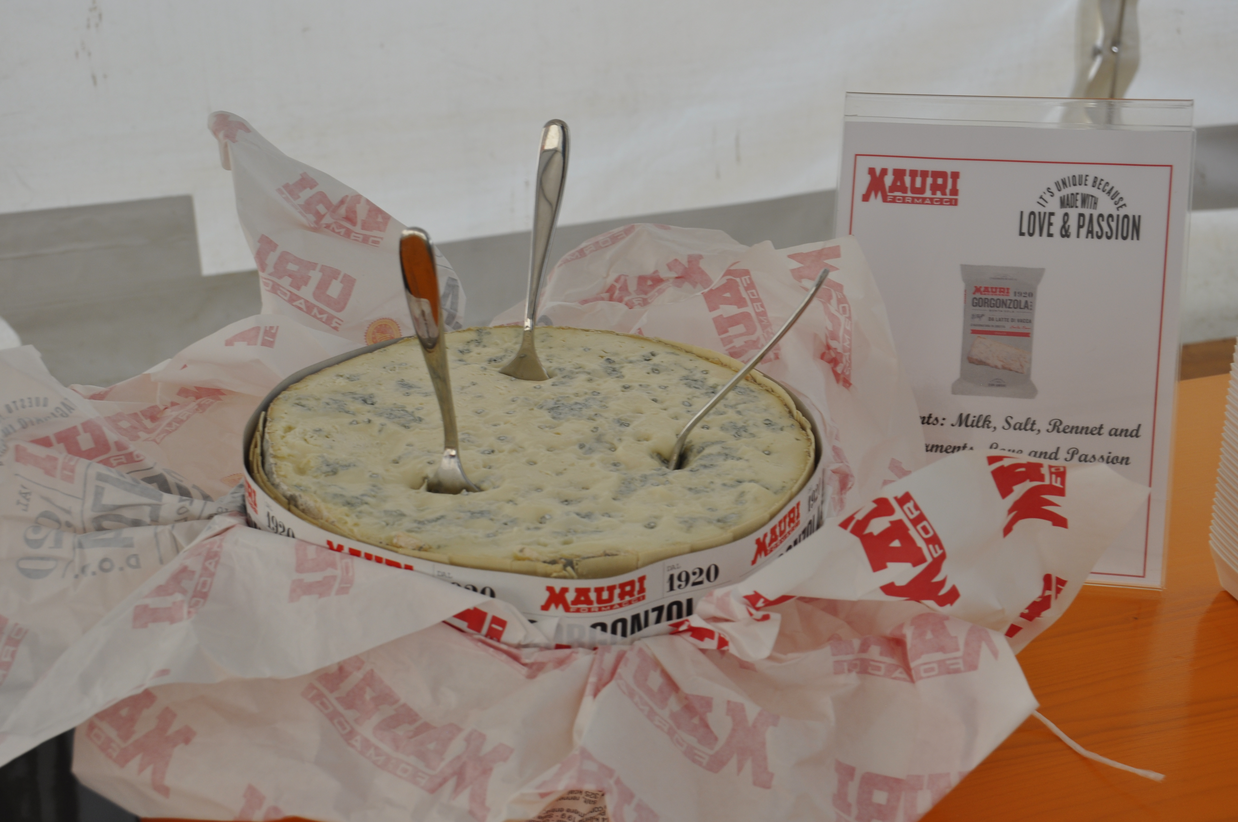 Wikimania 2016 - Day 1